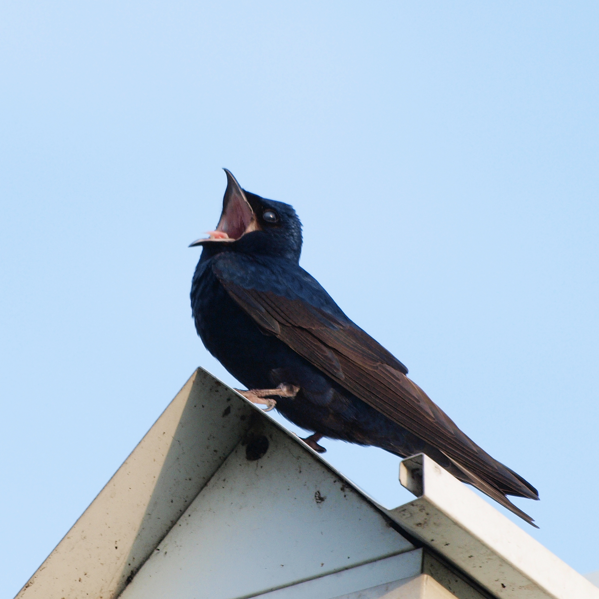 Progne subis, adult male, singing. Jackson Park Terrace, Chicago.